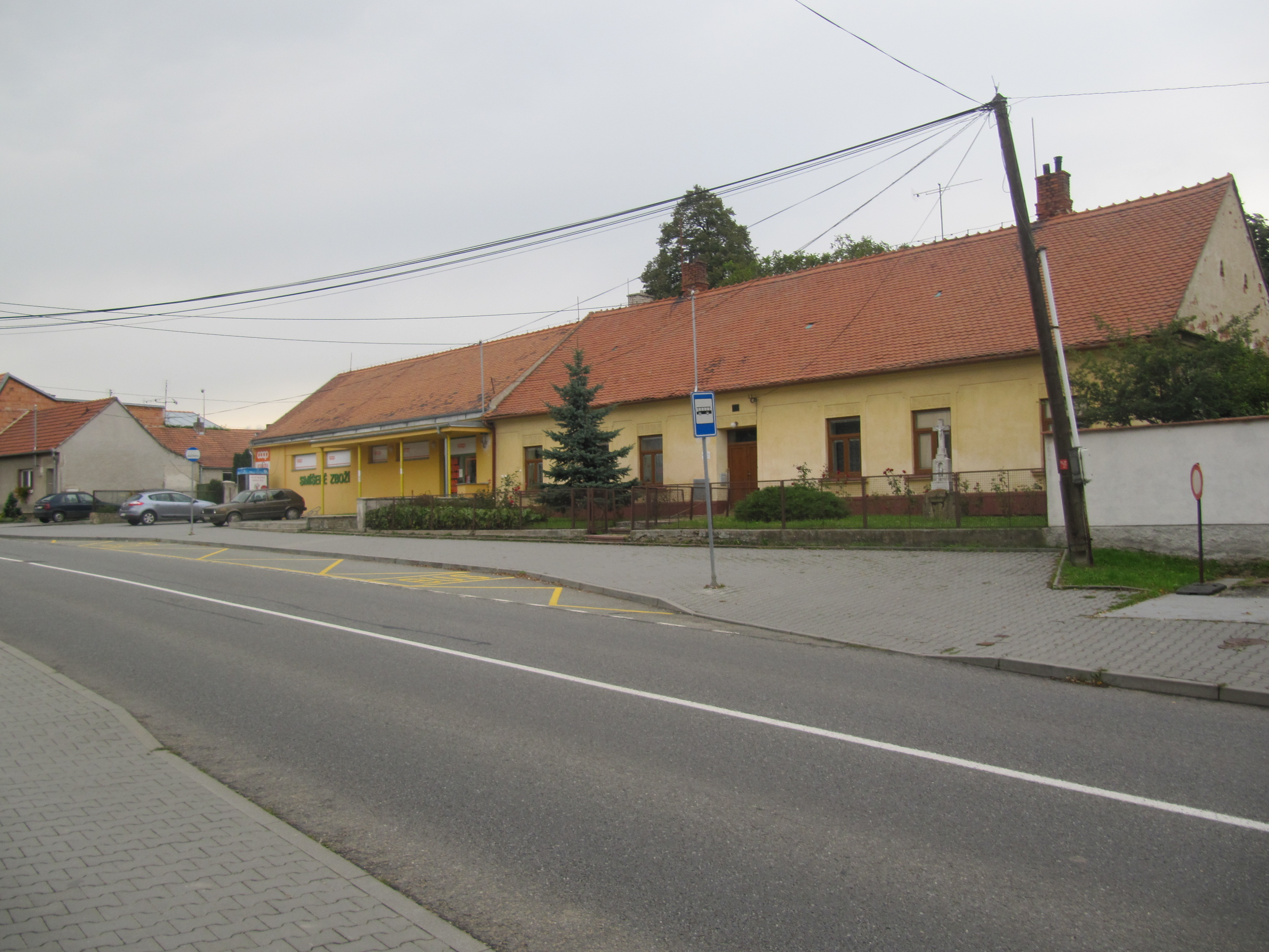 Vysoké Popovice in Brno-Country District, Czech Republic.Centre of the village.